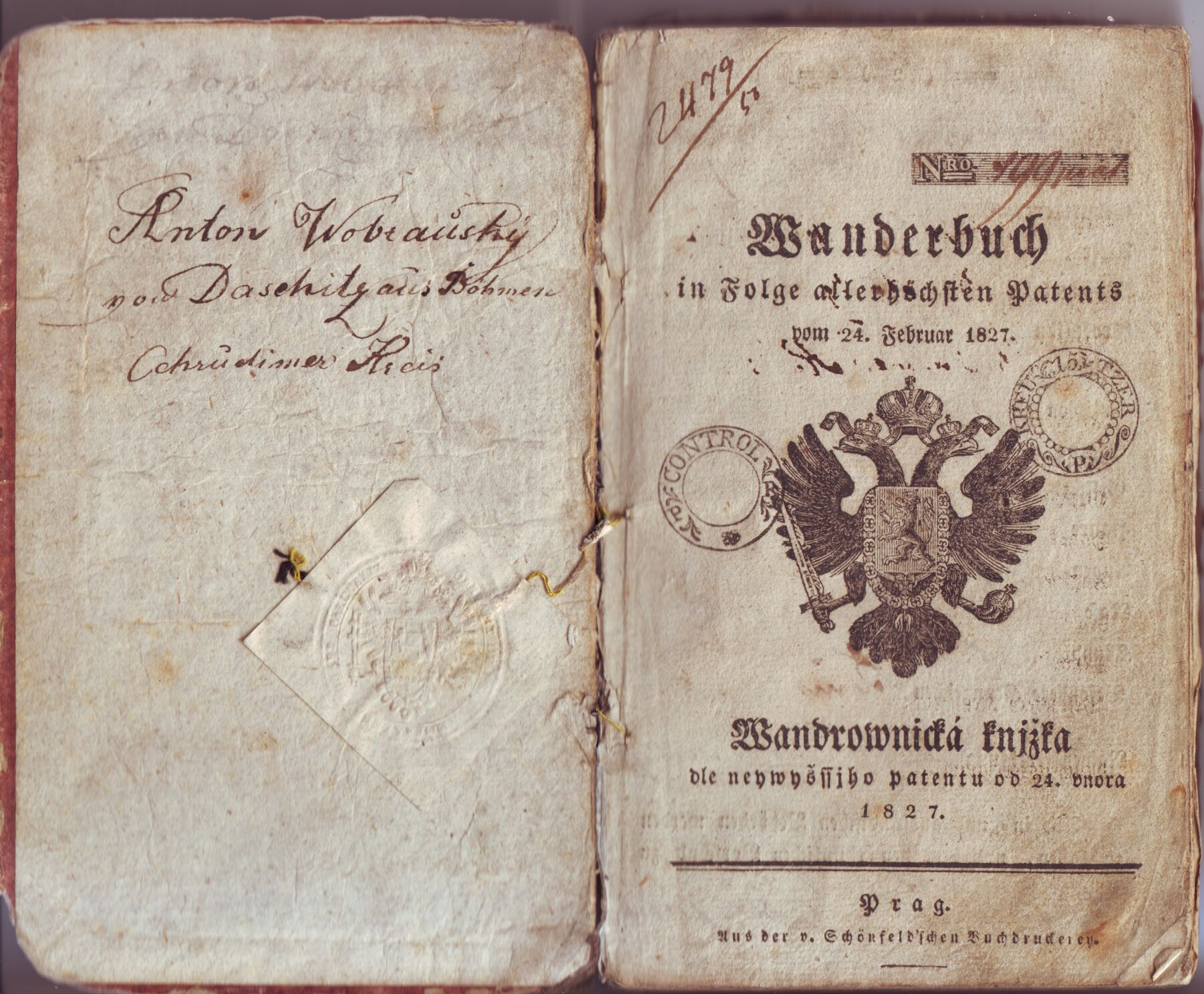 Travelling book of a Czechoslovakian furrier. Page 1